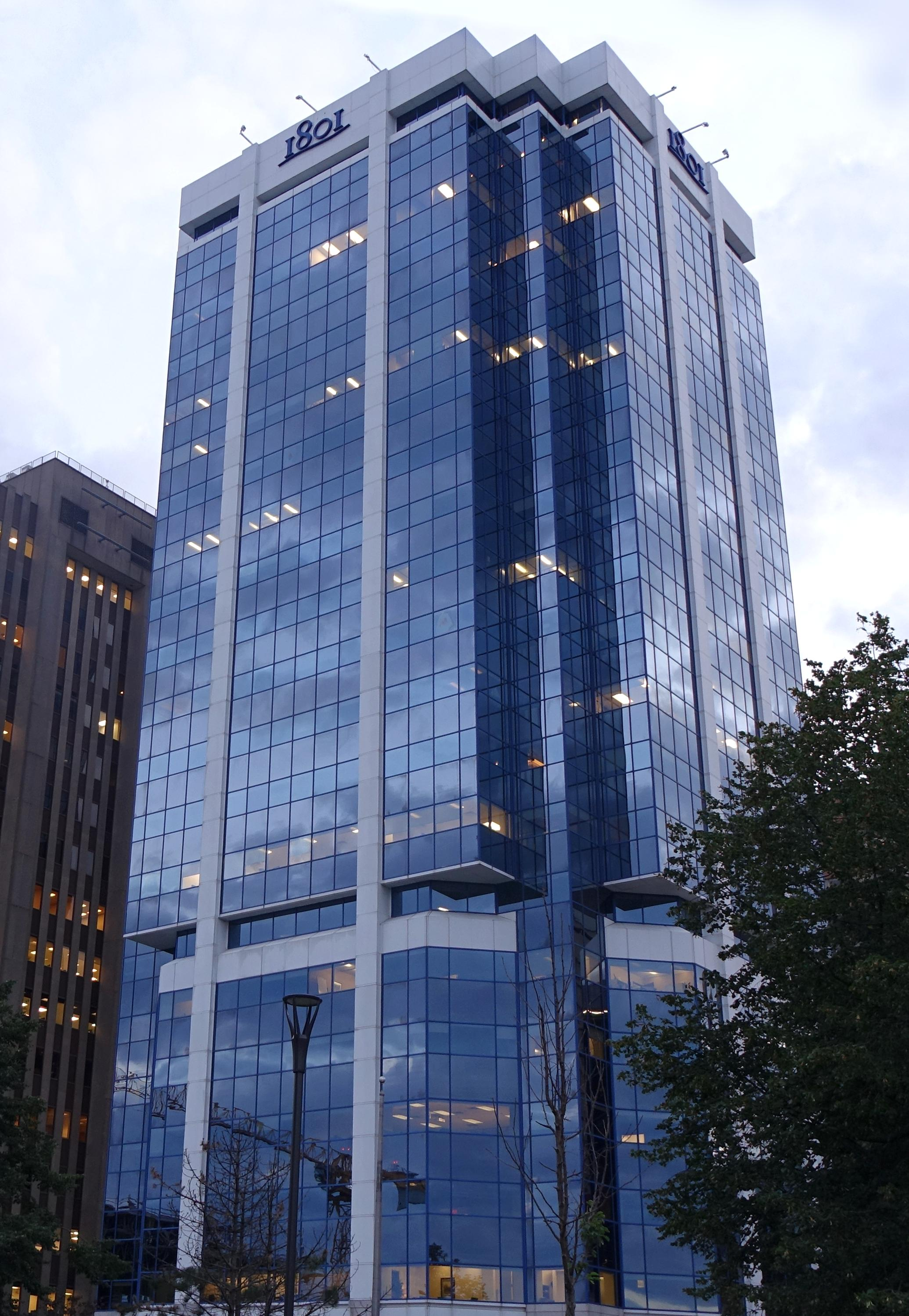 This photo taken on August 31, 2018, shows the eastern face of the 1801 Hollis Street office building tower in downtown Halifax, Nova Scotia, Canada.